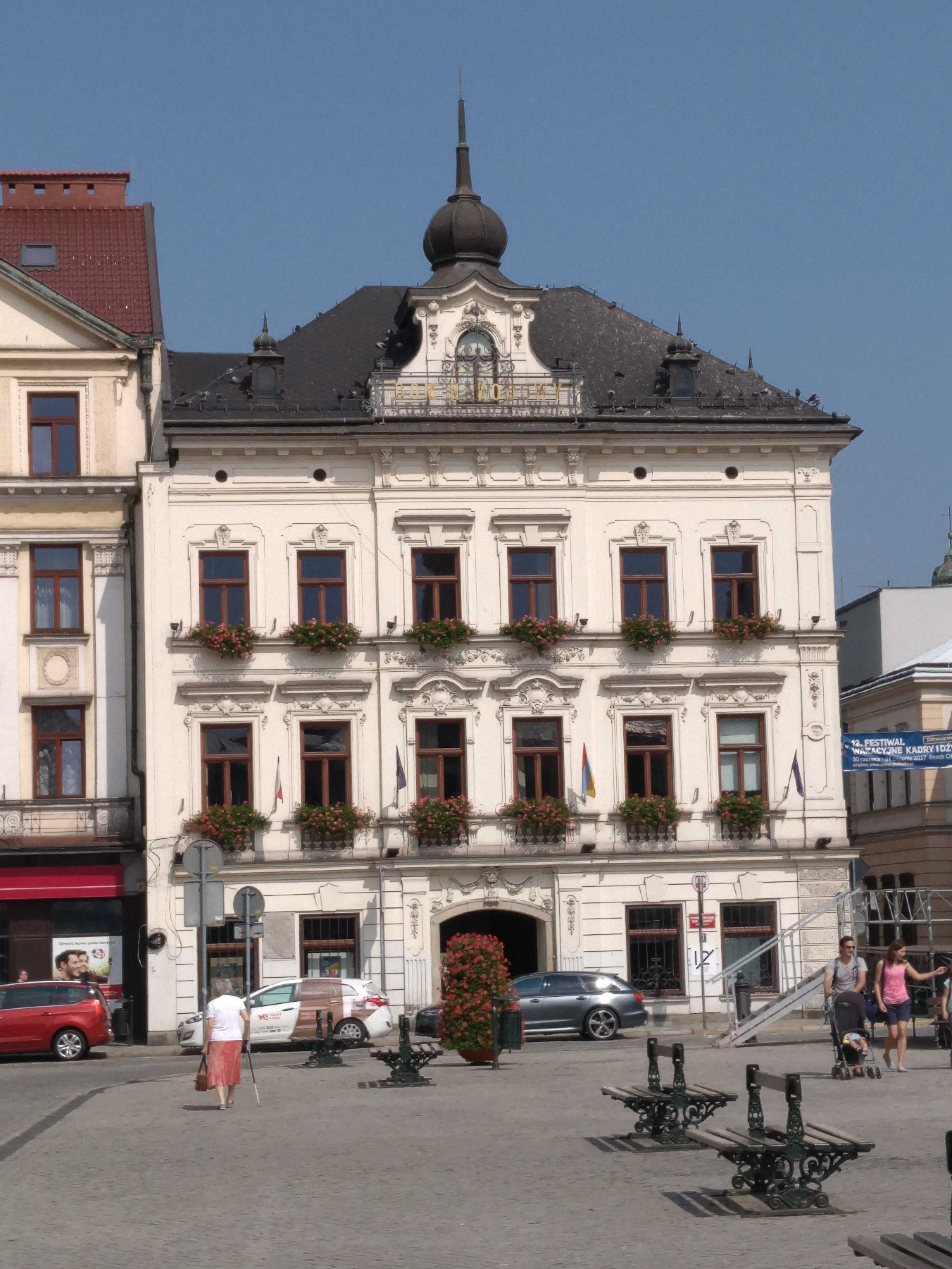 Dom Narodowy in Cieszyn